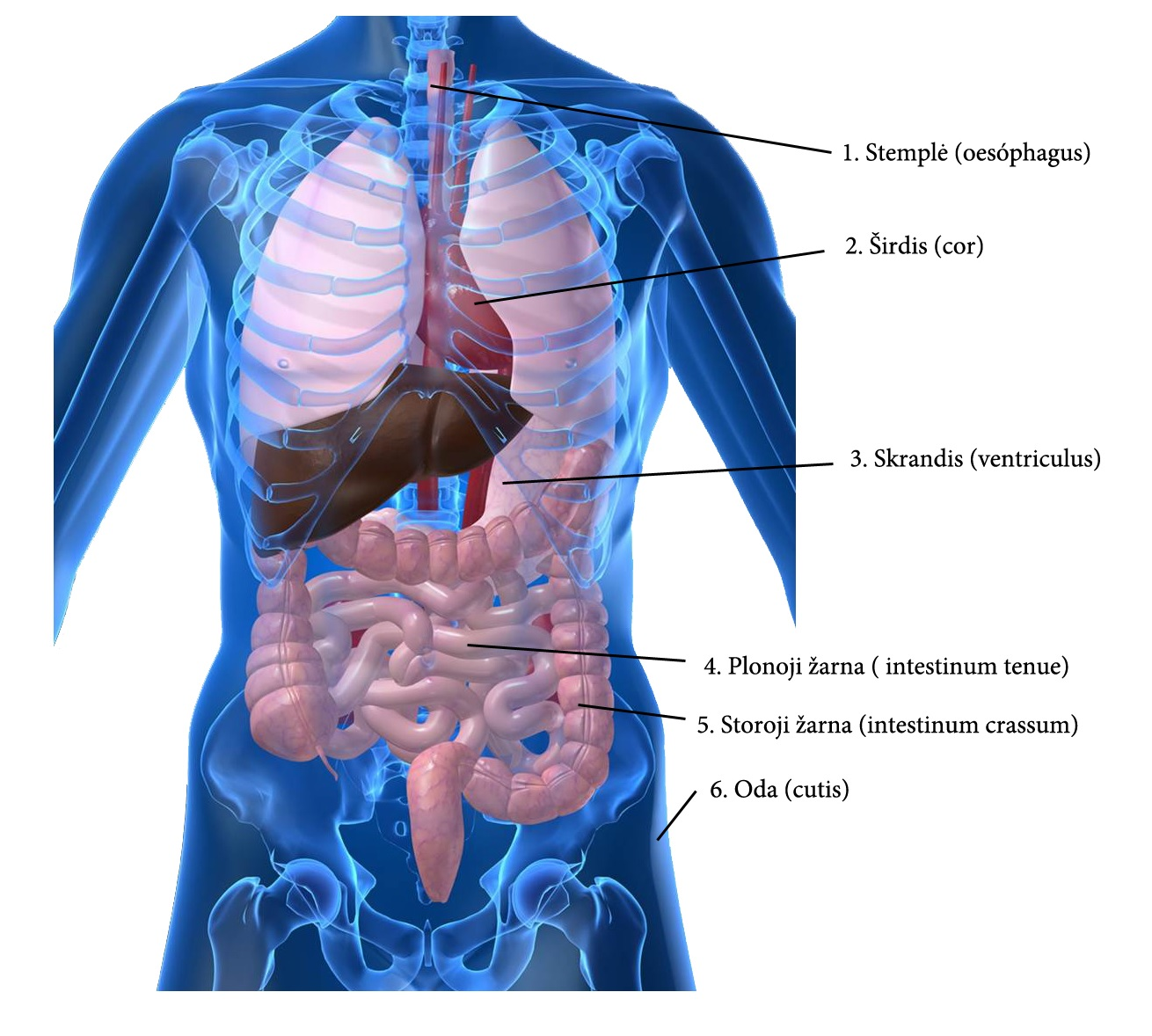 These are the most vulnerable spots, when you have bulimia.